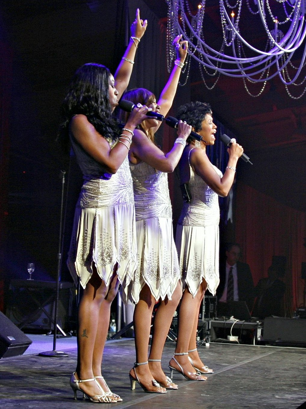 The Pointer Sisters performing at the North Jersey Susan G. Komen Breast Cancer Foundation's 10th Annual Pink Tie Ball fundraiser event on Nov. 4, 2006 in Morristown, NJ.